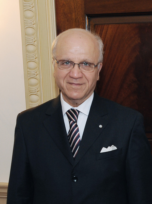 Algerian Foreign Minister Mourad Medelci at the U.S. Department of State in Washington, D.C., on January 12, 2012.